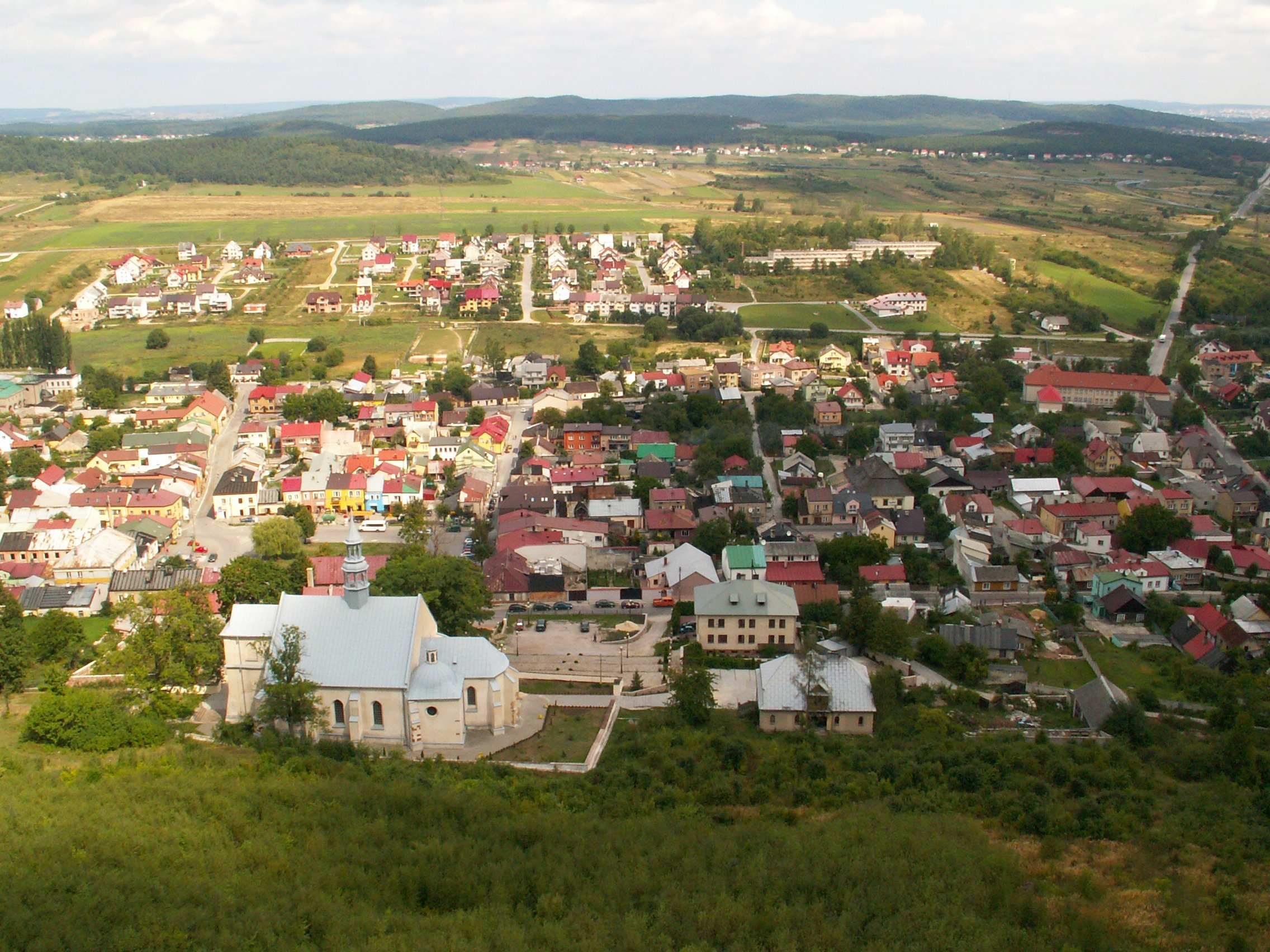 Chęciny view from castle (Poland)